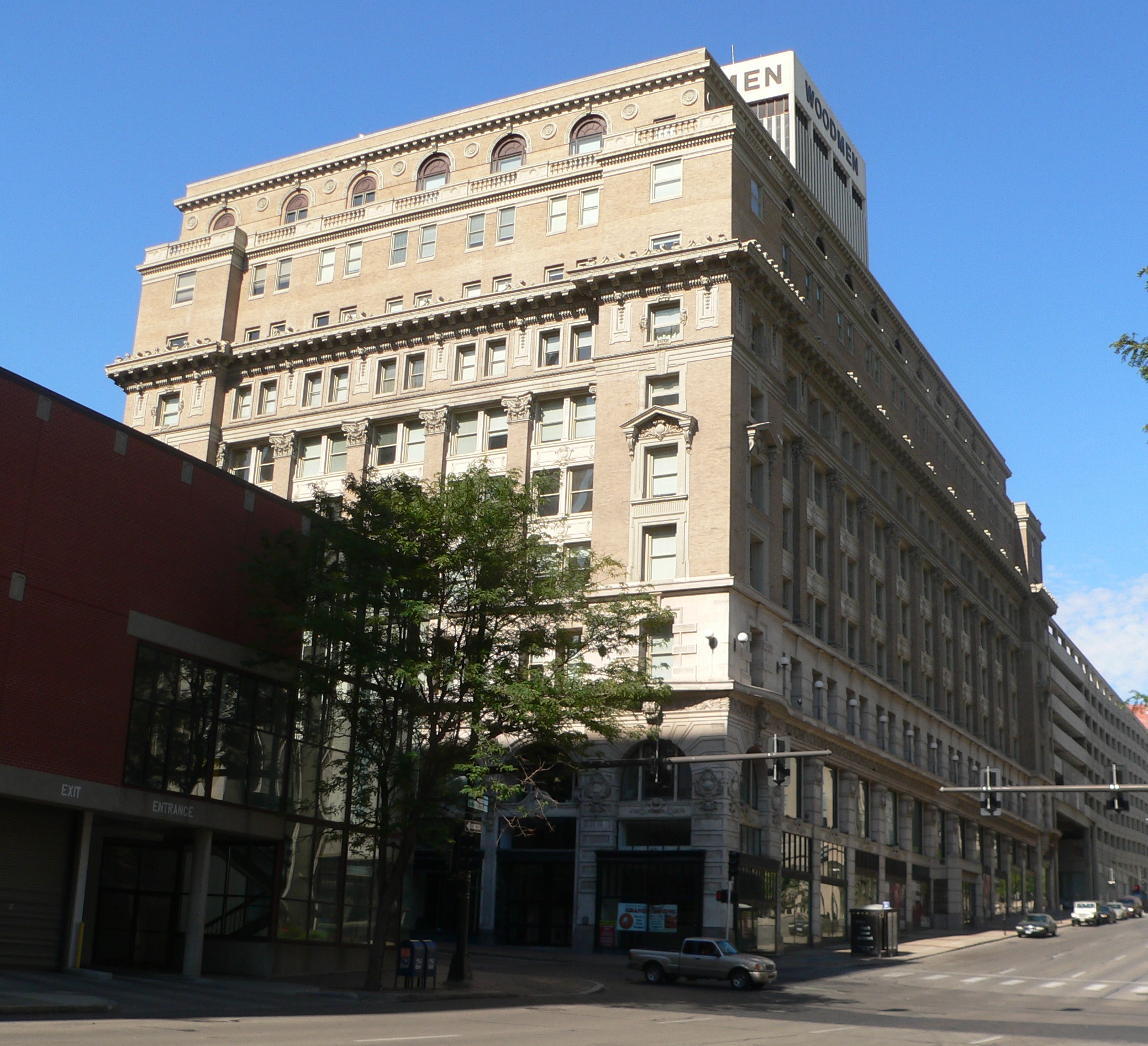 J. L. Brandeis & Sons building, located at 200 S. 16th Street (southwest corner of 16th and Douglas) in Omaha, Nebraska; seen from the northeast.